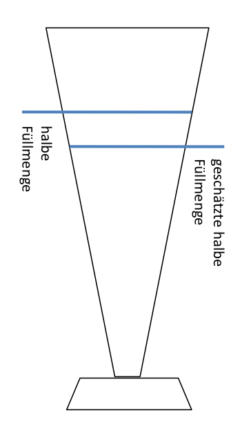 Truncated glass with marks of the supposed and the actual half fill level